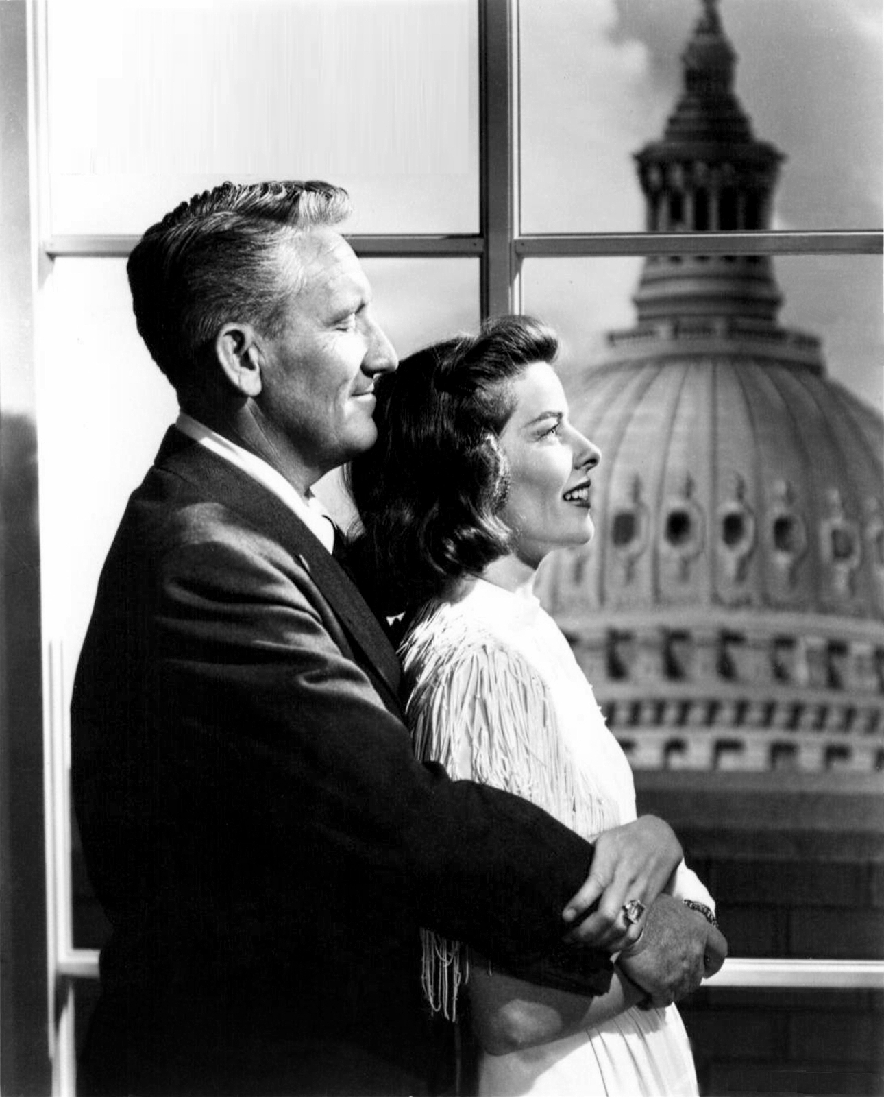 State of the Union with Tracey and Hepburn